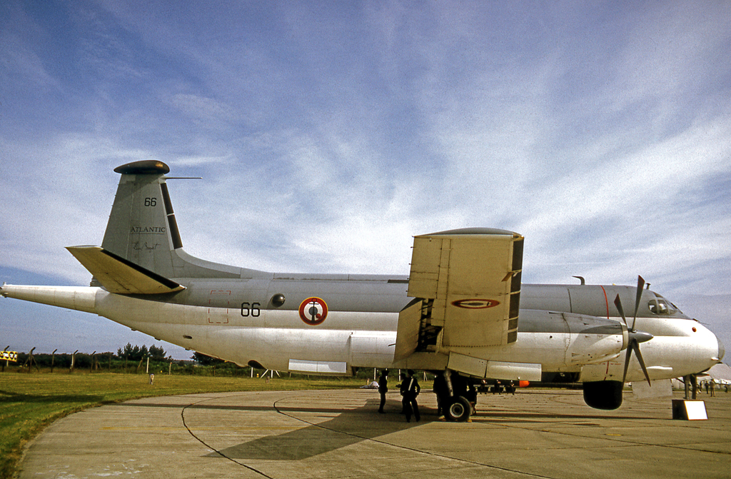 Breguet BR1150 Atlantic No. 66 of 24 Flotille French Navy at RAF Greenham Common in 1973